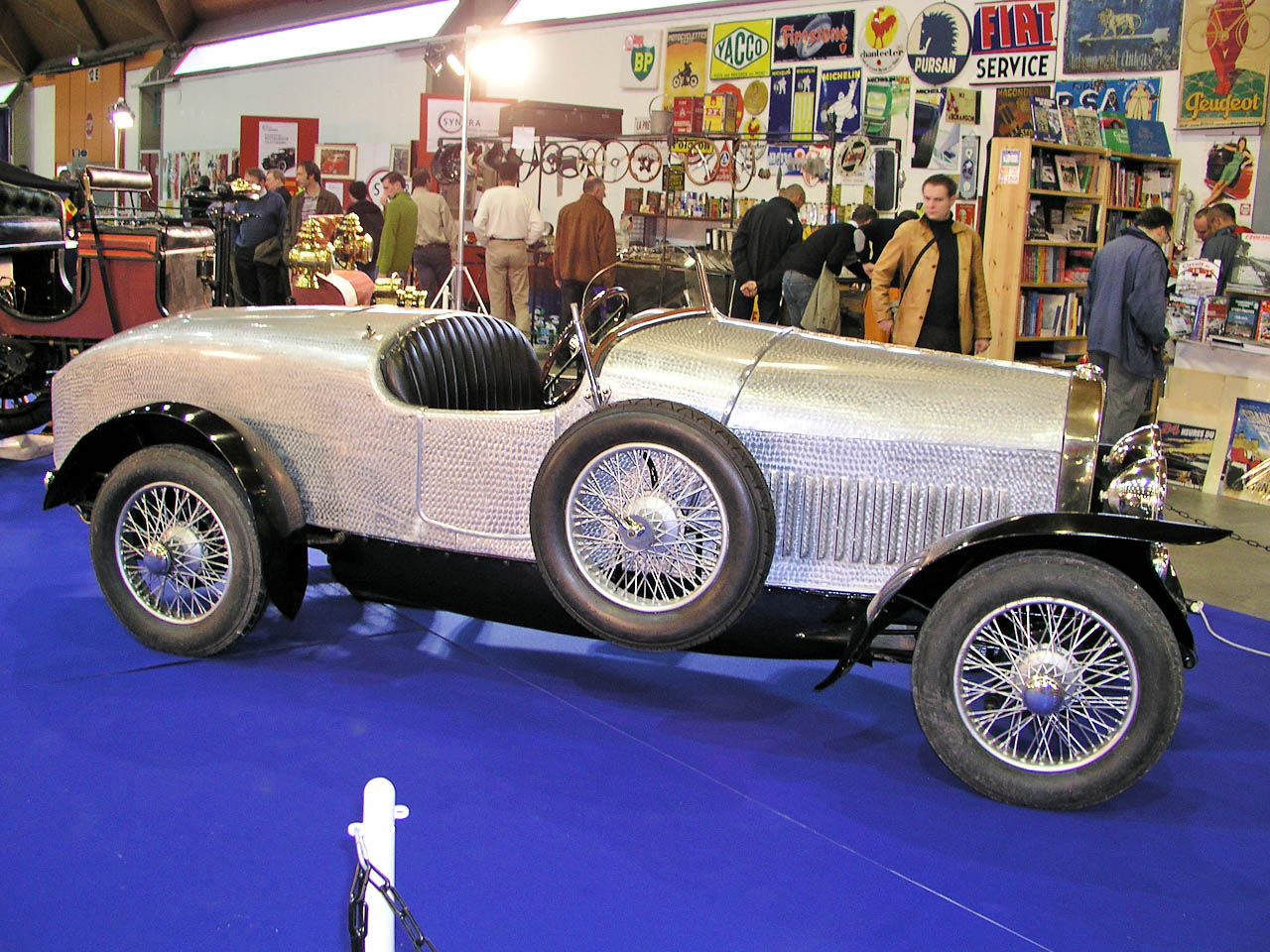 sports car with 1.3-litre 4-cylinder engine with overhead valves and special bodywork, made in Belgium by Fabrique Nationale d'Armes de Guerre; side view